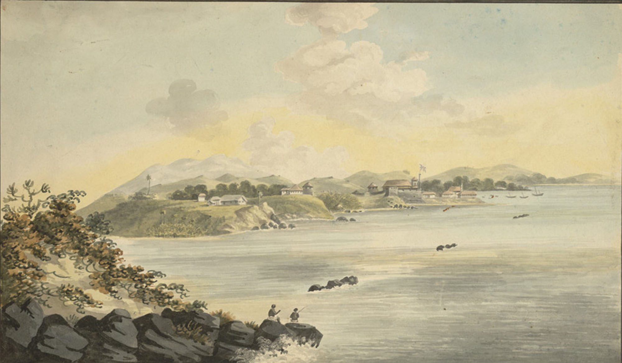 Water-colour painting of Tellicherry from the island of Darmadam, or Darmapattam, by an unknown artist, c.1790. The inscription, overwritten on the reverse reads: 'Tellicherry from Durmapatam. Hills round Mahe. Charles Point. P[...] Church. Telly Fort House. Ghauts Calick Wells. A Bungalow built by Mr Falconer. Cochin Cundy Fort ditto by Mr Bailie. Codoly Fort. The entrance to the Dumapm & Codoly rivers'. Tellicherry, founded in 1683, was the first regular settlement on the Malabar coast. The fort was completed in 1708 by the Kolattiri Rajah and handed to the East India Company for the protection of their factory. In 1776 the factory was reduced to a Residency and in 1794 the factory was abolished by Sir John Shore. It has not been possible to identify Falconer and Bailie with certainty; an Alexander Falconer was in the Madras Civil Service at this period This image falls into the public domain as it was taken in India prior to 1 January 1951, and was not published in India after that date. It is in public domain in the United States as well as it was taken prior to 1 January 1951.